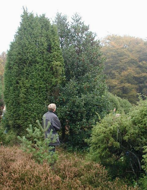 A habitat with Ilex aquifolium, Juniperus communis, Calluna vulgaris, Pinus sylvatica and Fagus sylvatica on a south facing slope at Salten Langsø, Jutland